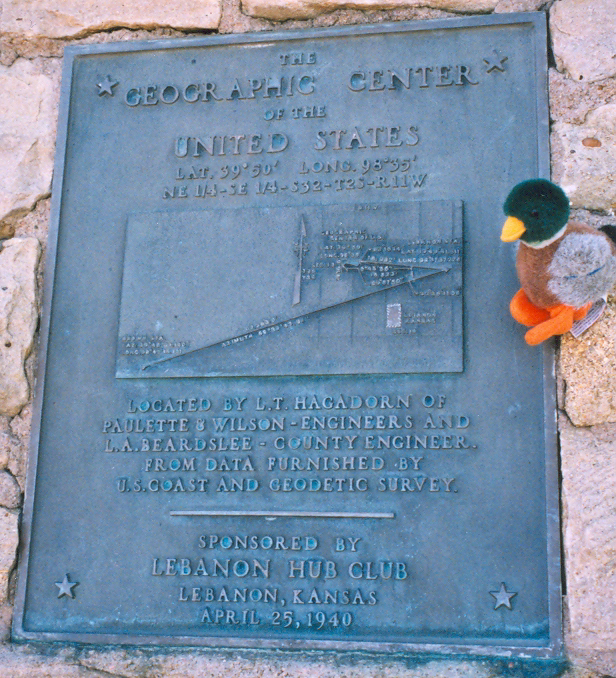 A close-up of the plaque on the monument at the geographic center of the 48 contiguous states in Lebanon, Kansas.